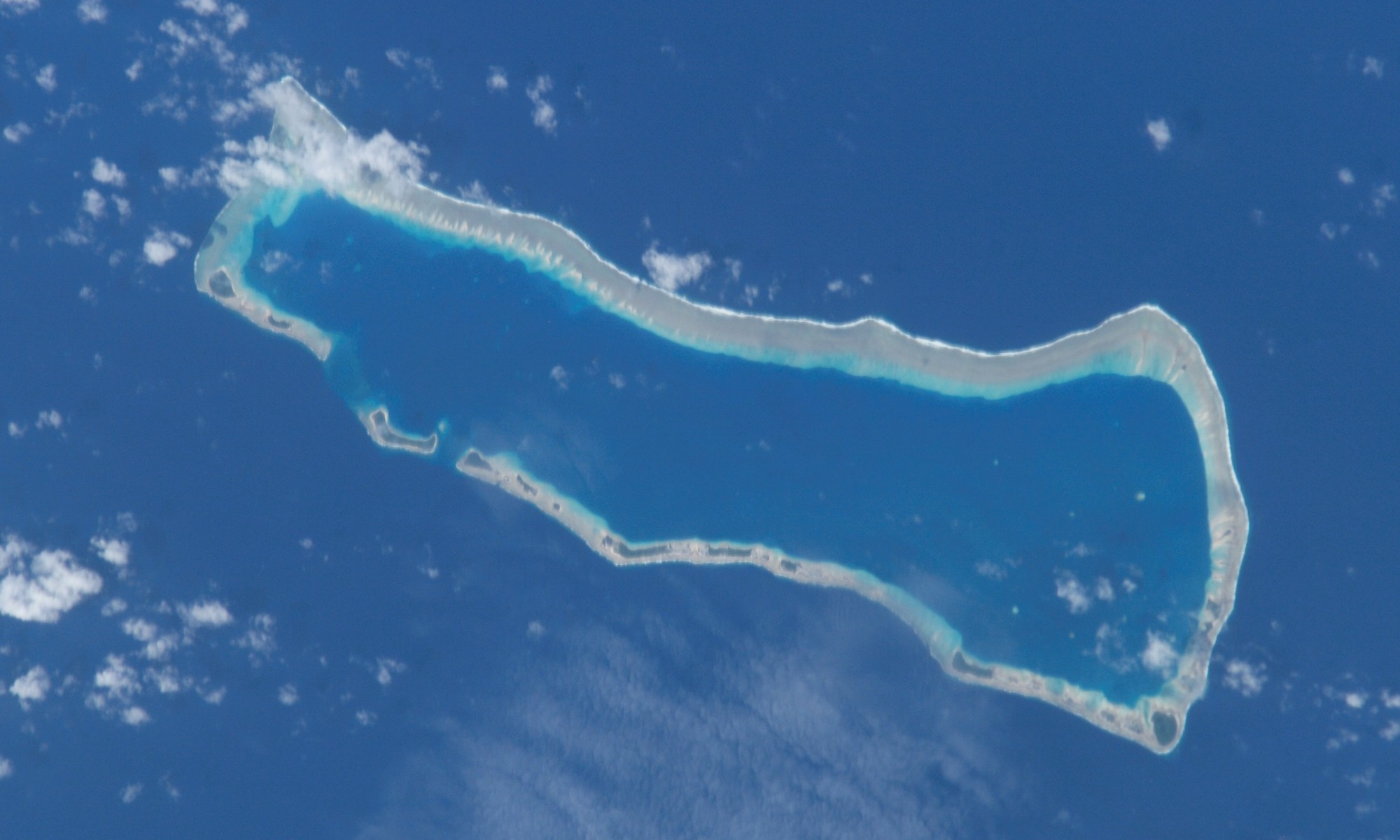 NASA Astronaut Image of Ailinginae Atoll (Ralik Chain, Marshall Islands) in the Pacific Ocean